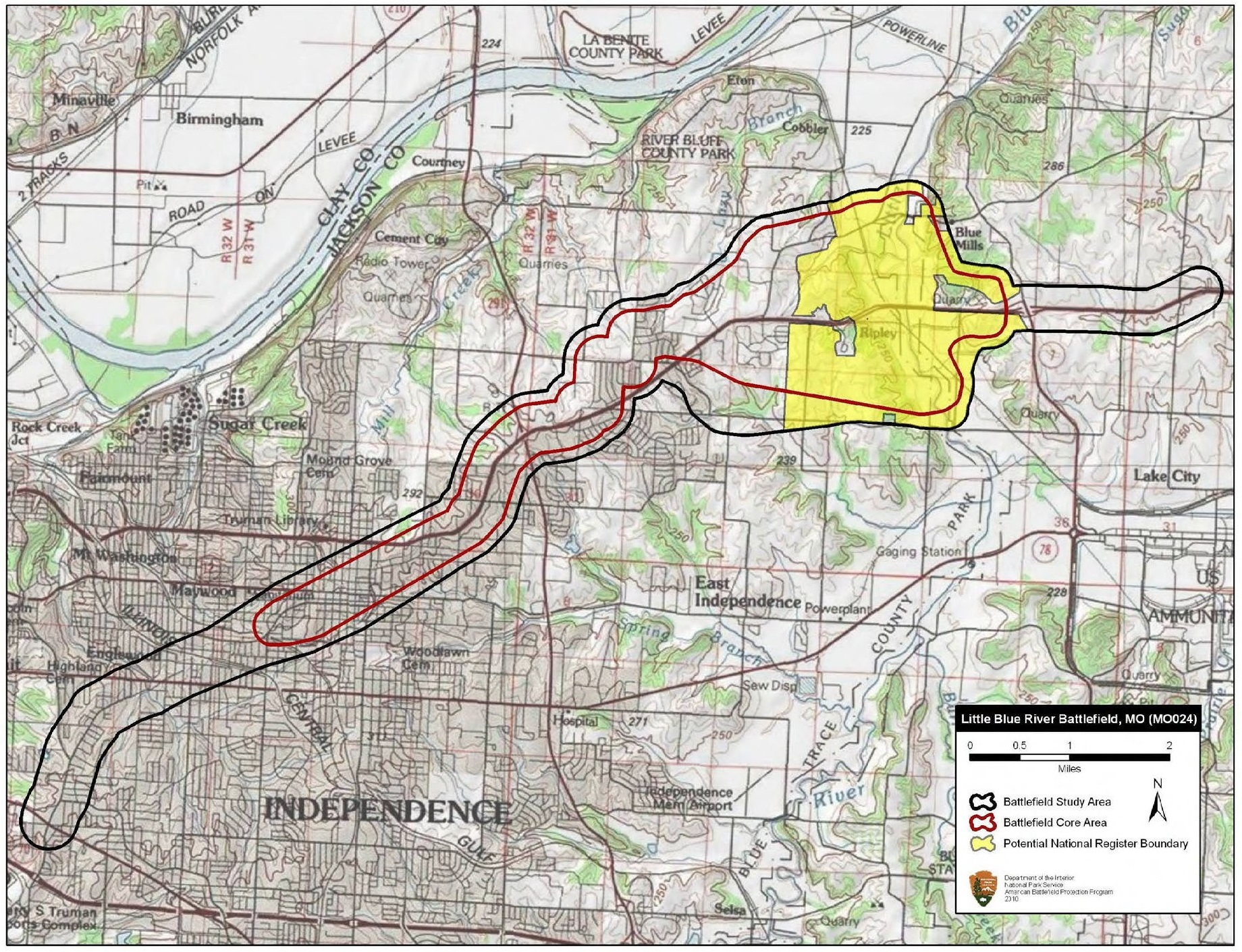 Map of battlefield core and study areas. The ABPP expanded the 1993 Study Area to include the Confederate route of approach from the east, the point of initial contact between the opposing forces, the area of fighting across the Little Blue River, the area of fighting west of the river, areas of troop movements throughout the day, and the path of the fight to and through Independence. The ABPP was unable to identify the roads upon which Union forces completed their withdrawal toward Westport. The ABPP redrew the 1993 Core Area to represent more fully the day’s fighting. Included are 1) the location of the opening engagement east of the Little Blue River; 2) the sweep of fighting along and across the river; 3) the location of fighting across farmland to the west of the river; 4) the location where the Union battle line reformed once Blunt arrived on the field from Independence; 5) the area of the Union counterattack back toward the river; 6) the Confederate counterattack back to the west; 6) the fighting retreat made by of Union forces to Independence; and 7) the street fighting in town.